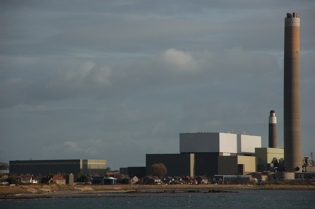 Kilroot power station, Carrickfergus Kilroot power station is dual oil and coal-fired. It is covered by three squares. The chimney is said to be the tallest structure in NI. This is the view from the Marine Highway, in the centre of Carrickfergus.